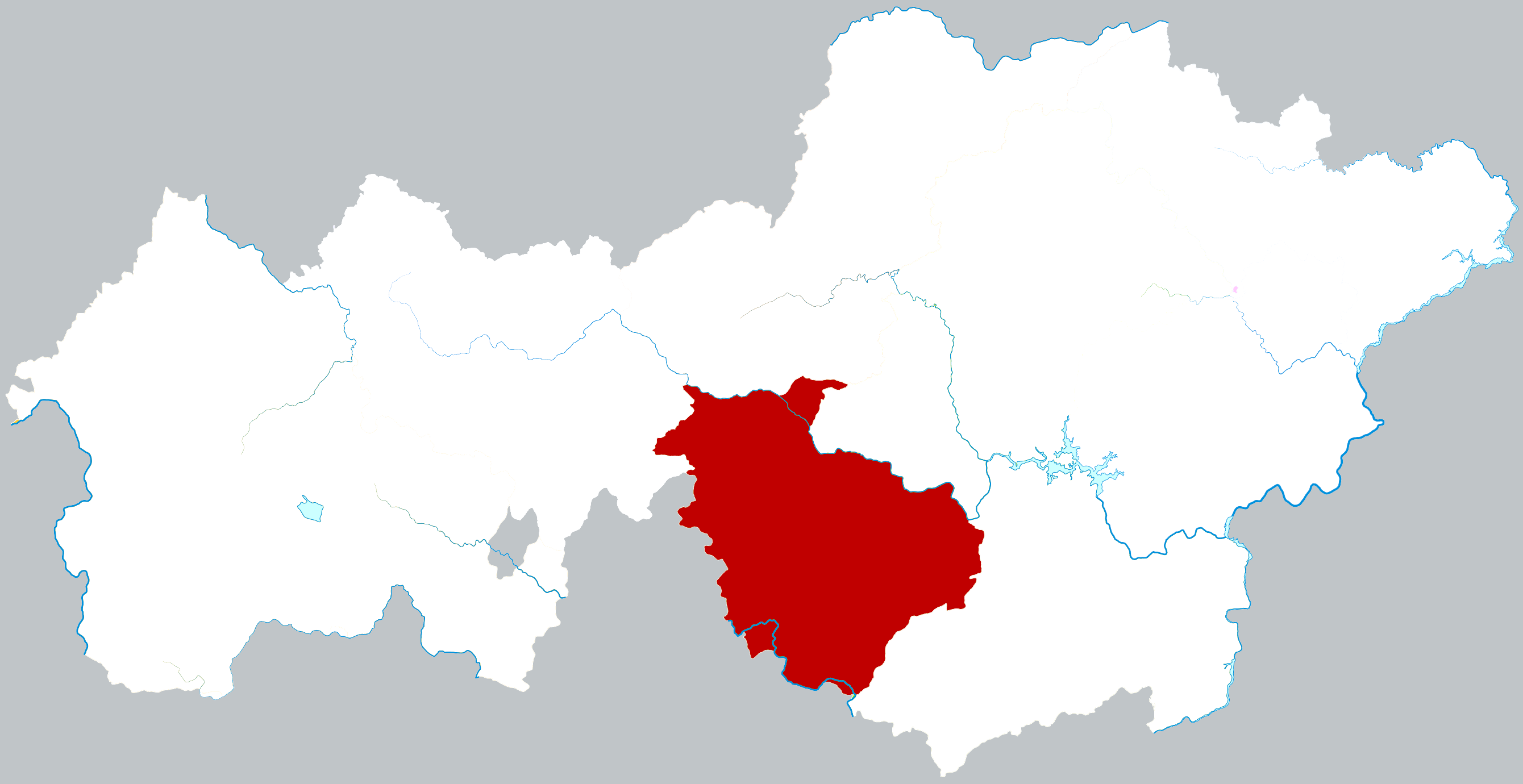 Location of Nayong county in Bijie city, China